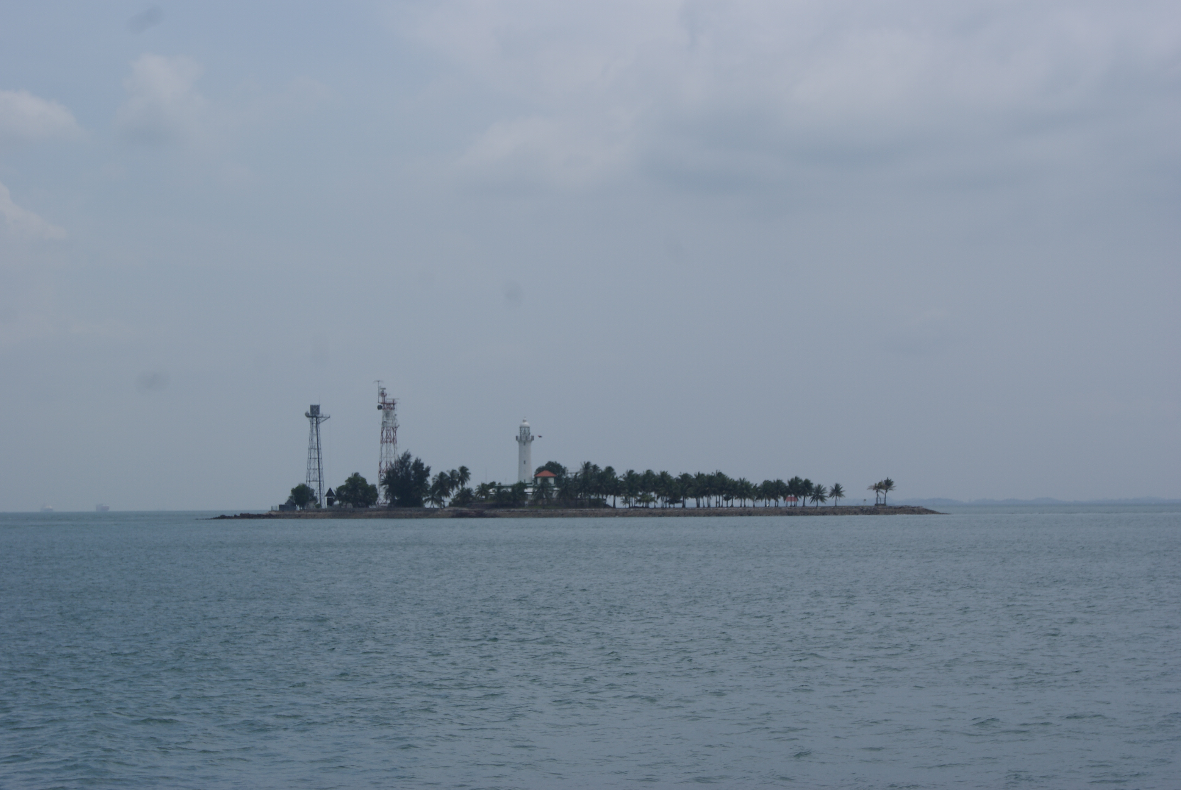 Pulau Satumu, Singapore's southernmost island, where Raffles Lighthouse is situated.